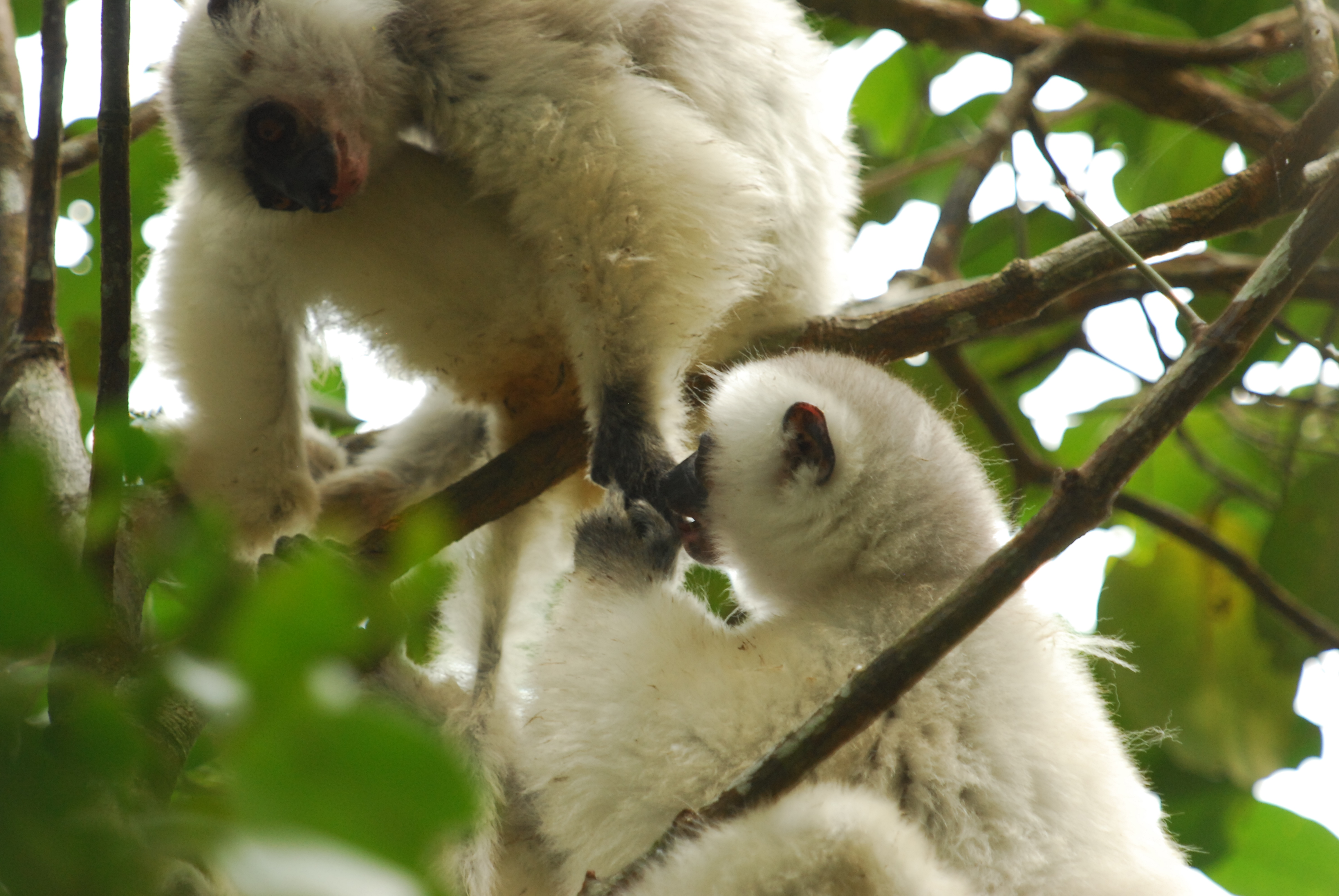 silky sifaka picture i took in Marojejy NP, Madagascar